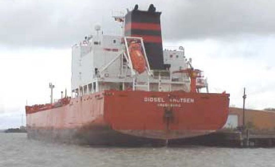 MT Sidsel Knutsen after accident with J. W. Westcott II.